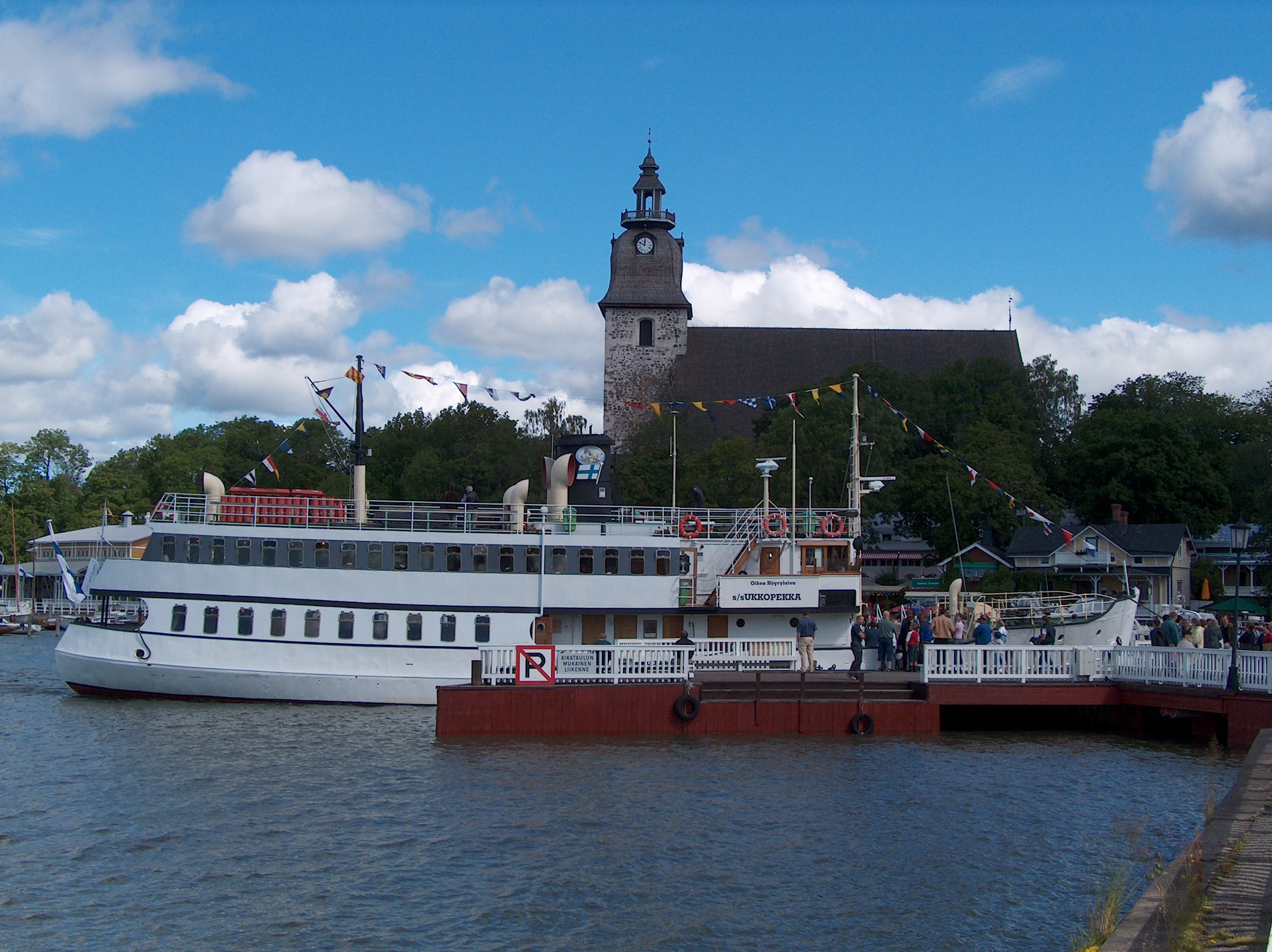 SS Ukkopekka in Naantali, Finland. Church of Naantali in the background.